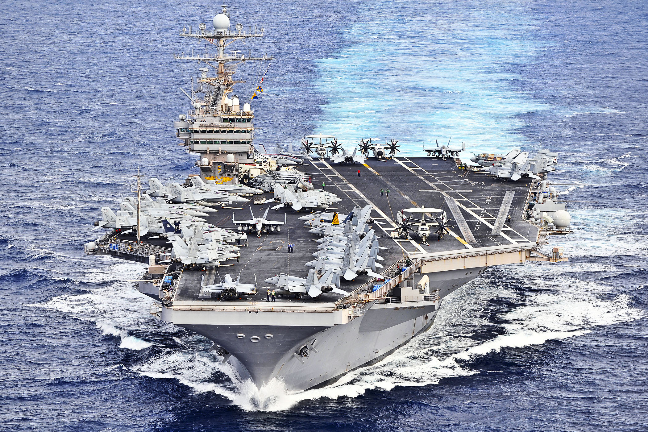 The USS Abraham Lincoln transits the Pacific Ocean during a deployment to the U.S. 5th and 7th Fleet areas of responsibility, Dec. 16, 2011.